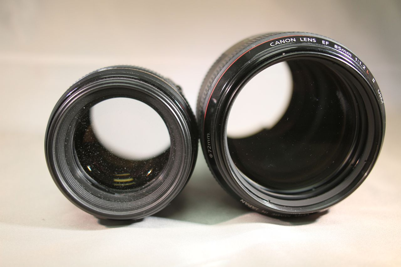 Canon 85mm f/1.2 L II and f/1.8 lenses compared.